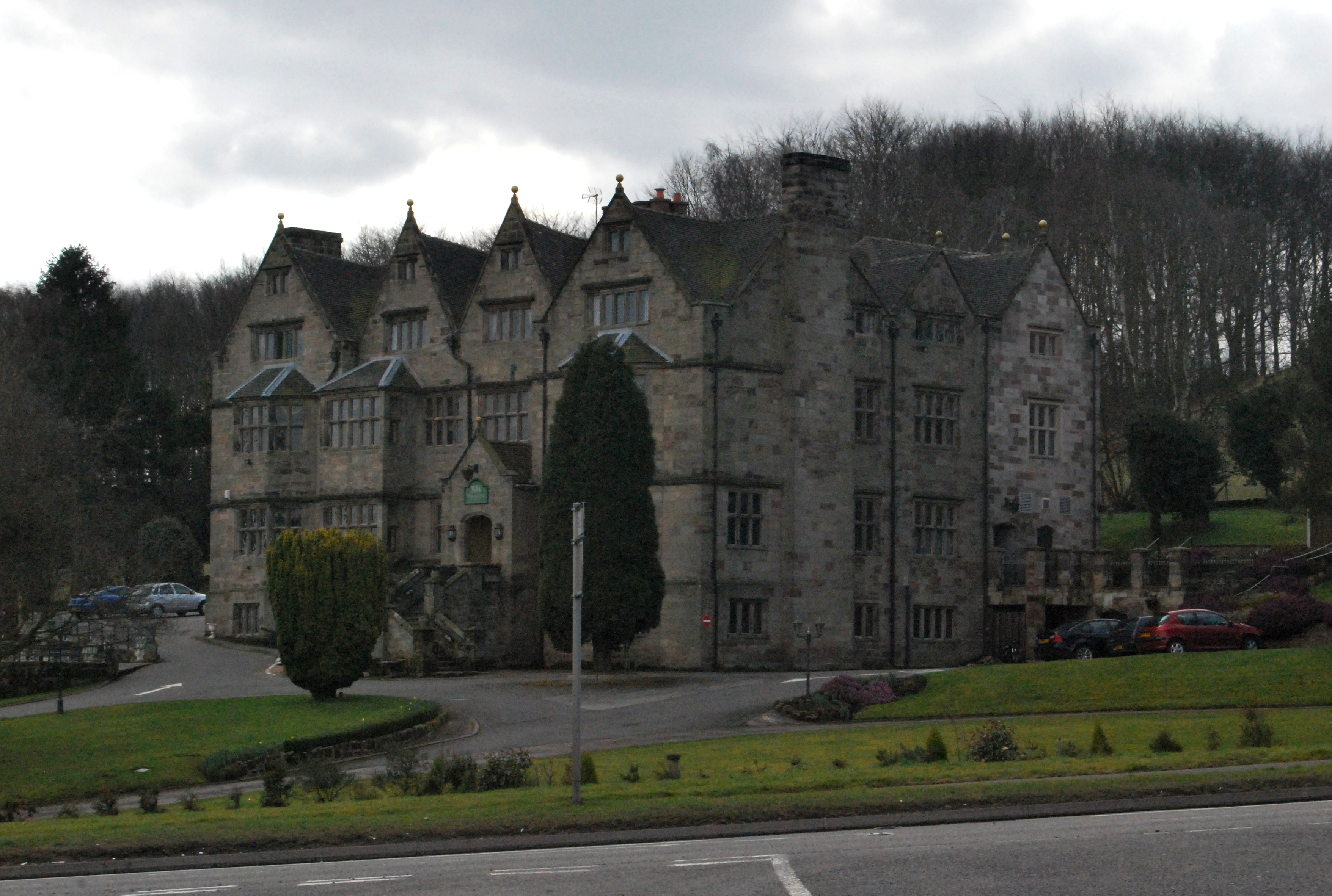 Weston Hall Staffordshire.